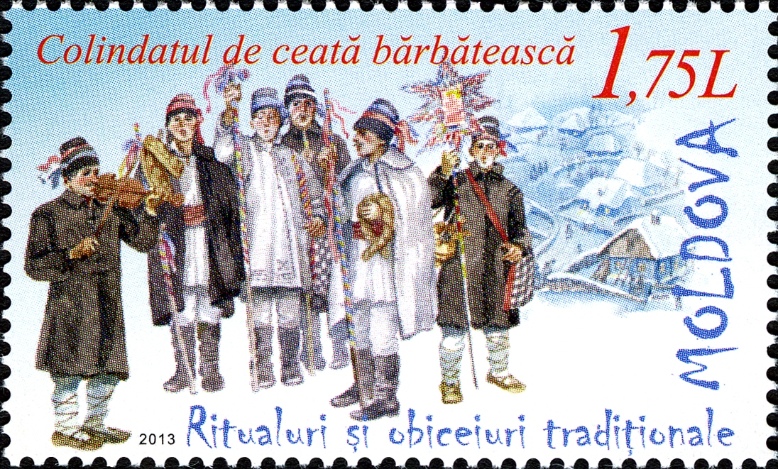 Stamps of Moldova, 2013